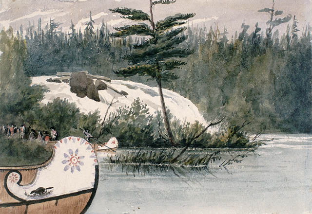 Hudson Bay Canoes at Chats Falls on the Ottawa River, Canada.